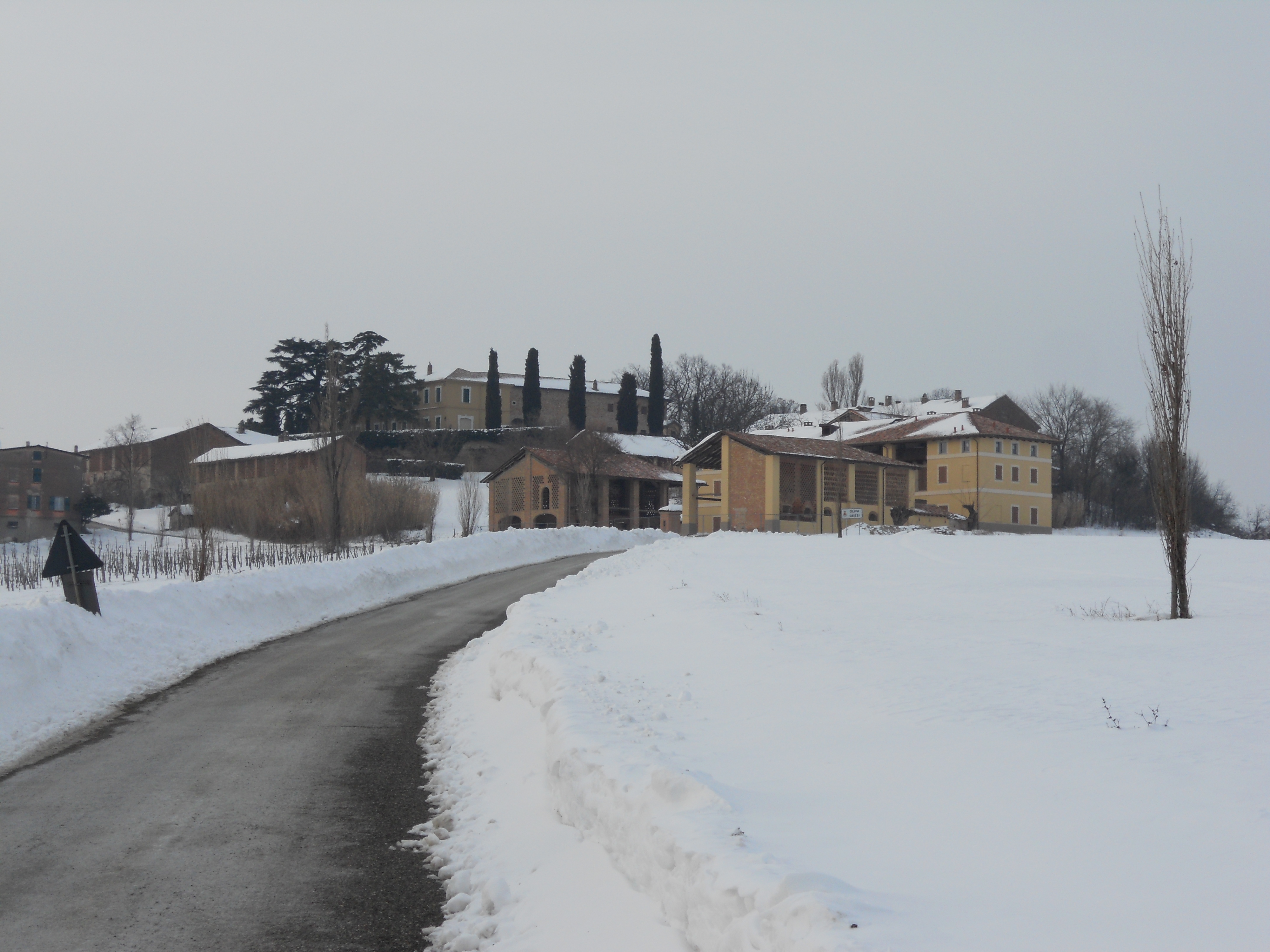 Oliva Gessi village